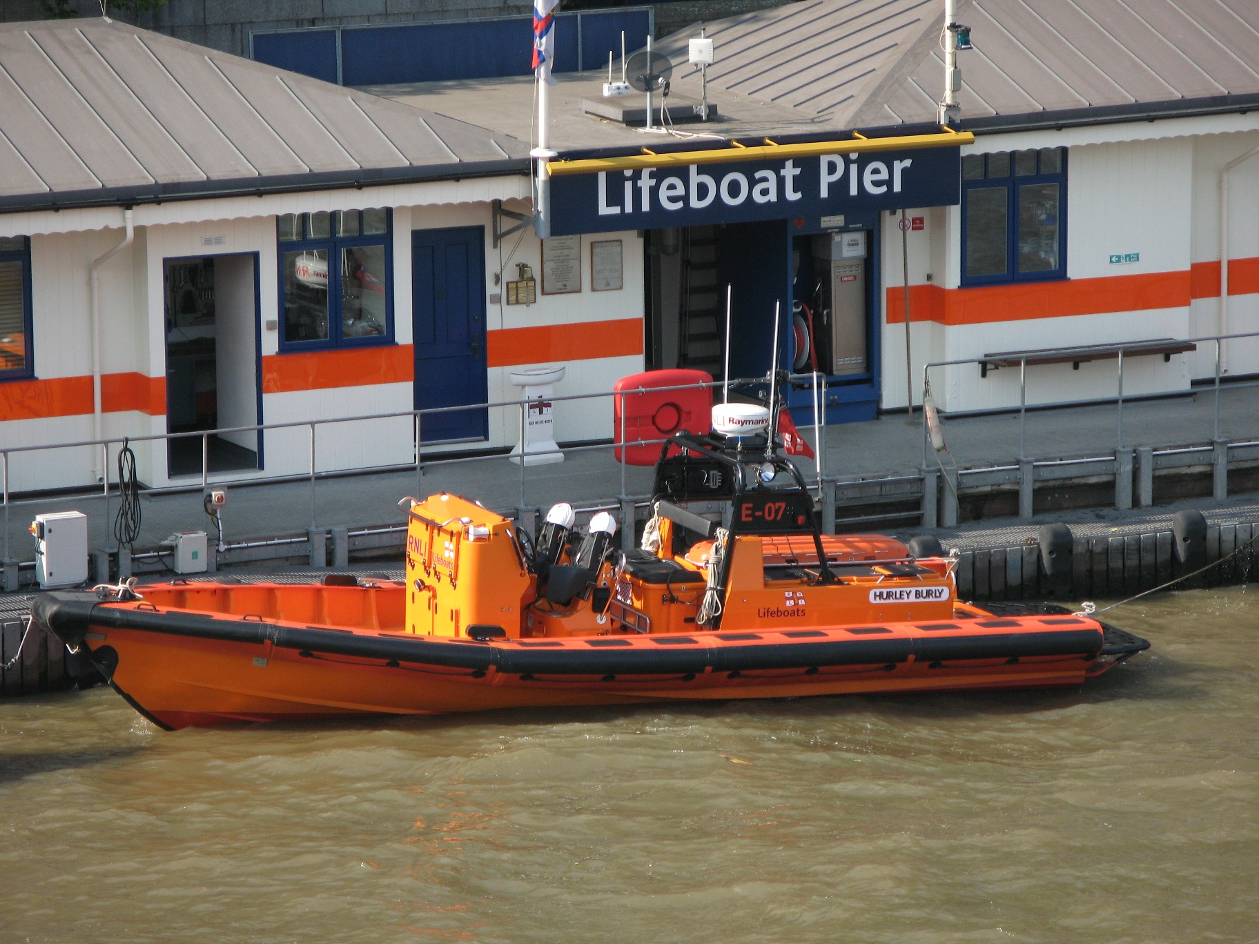 The prototype Mark 2 E Class lifeboat, E-07 Hurley Burly moored at Tower Lifeboat station on the River Thames in London.